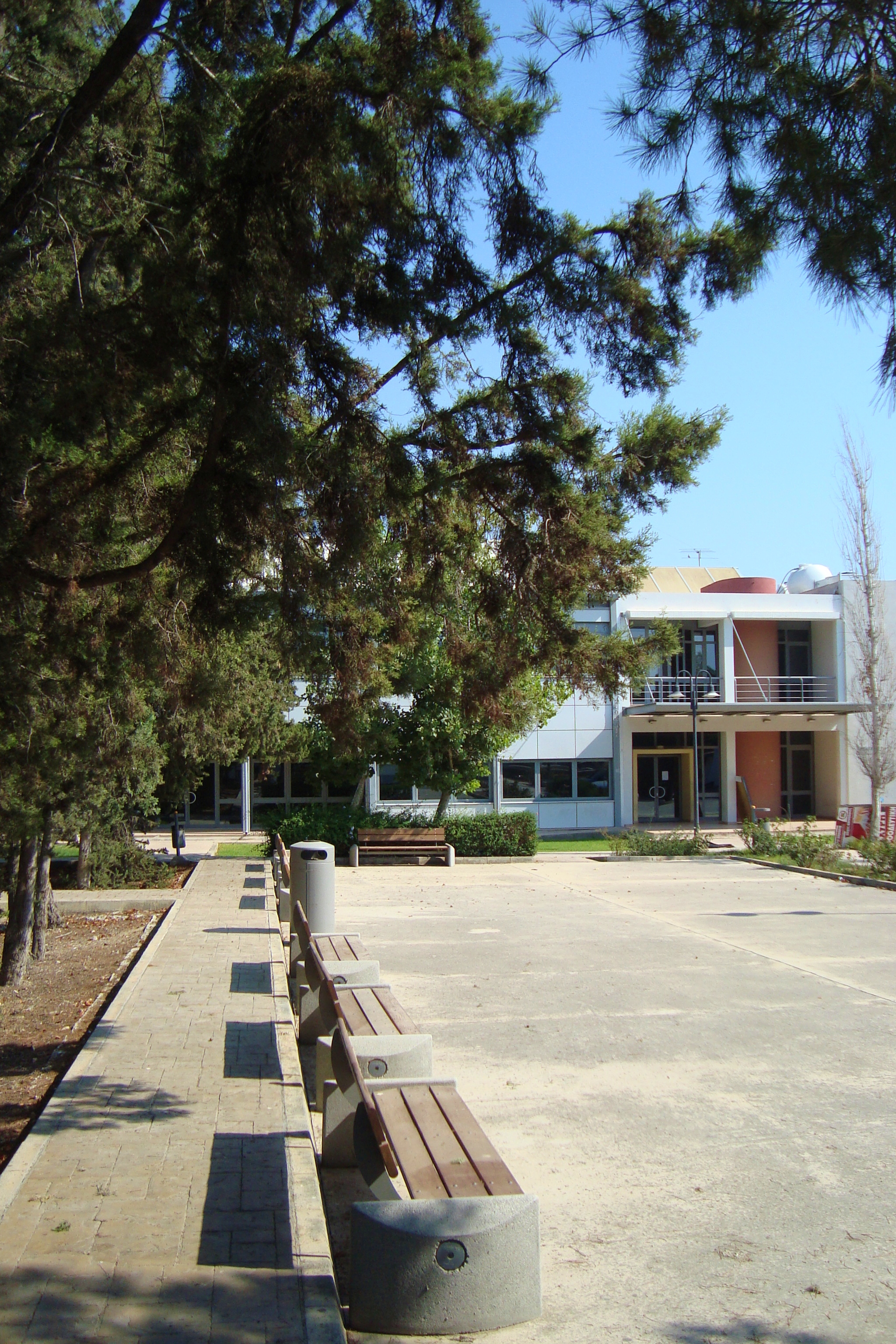 University of Cyprus in Nicosia capital of the Republic of Cyprus